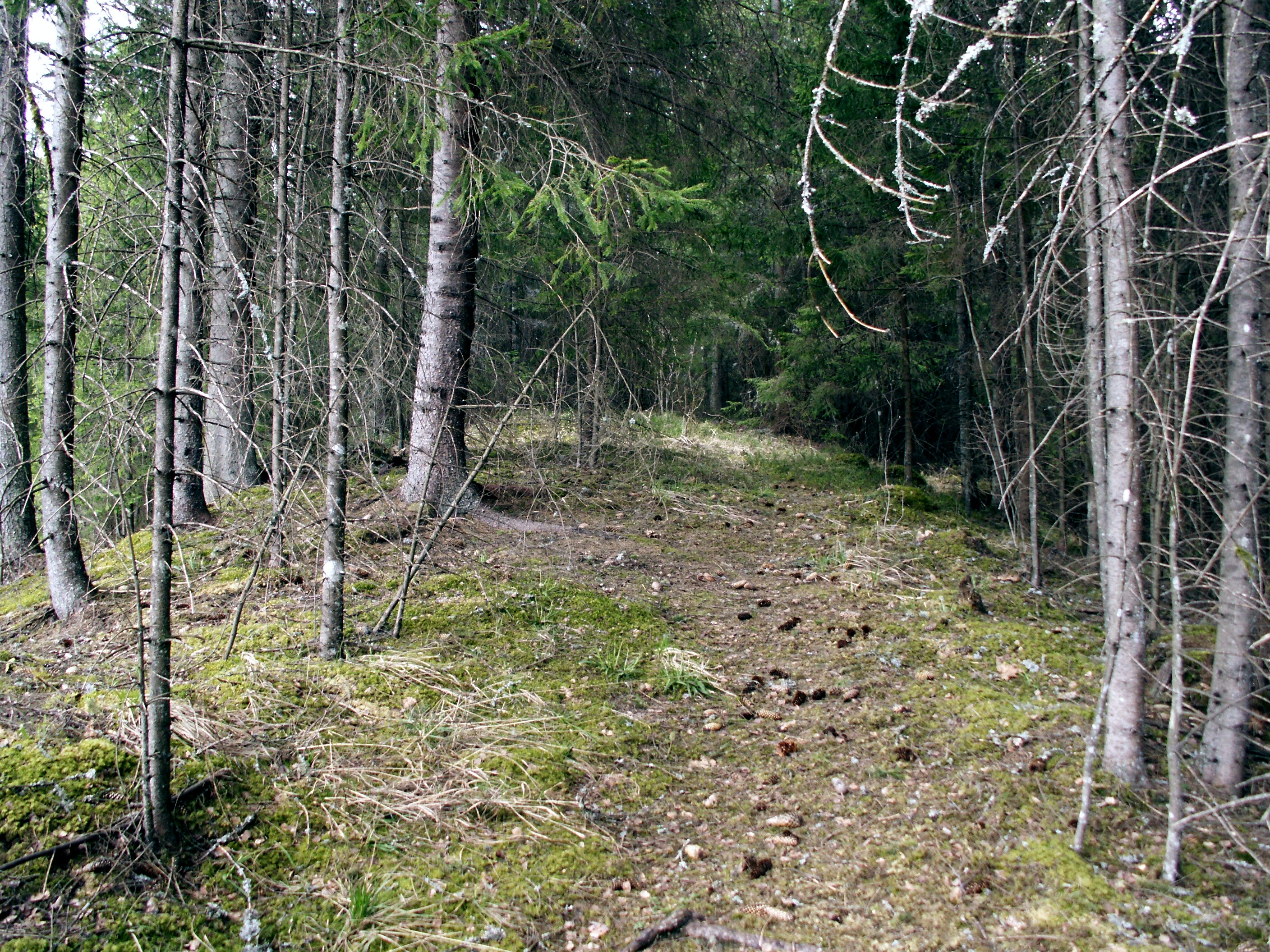 Esker Targiai, Kelmė district, Lithuania